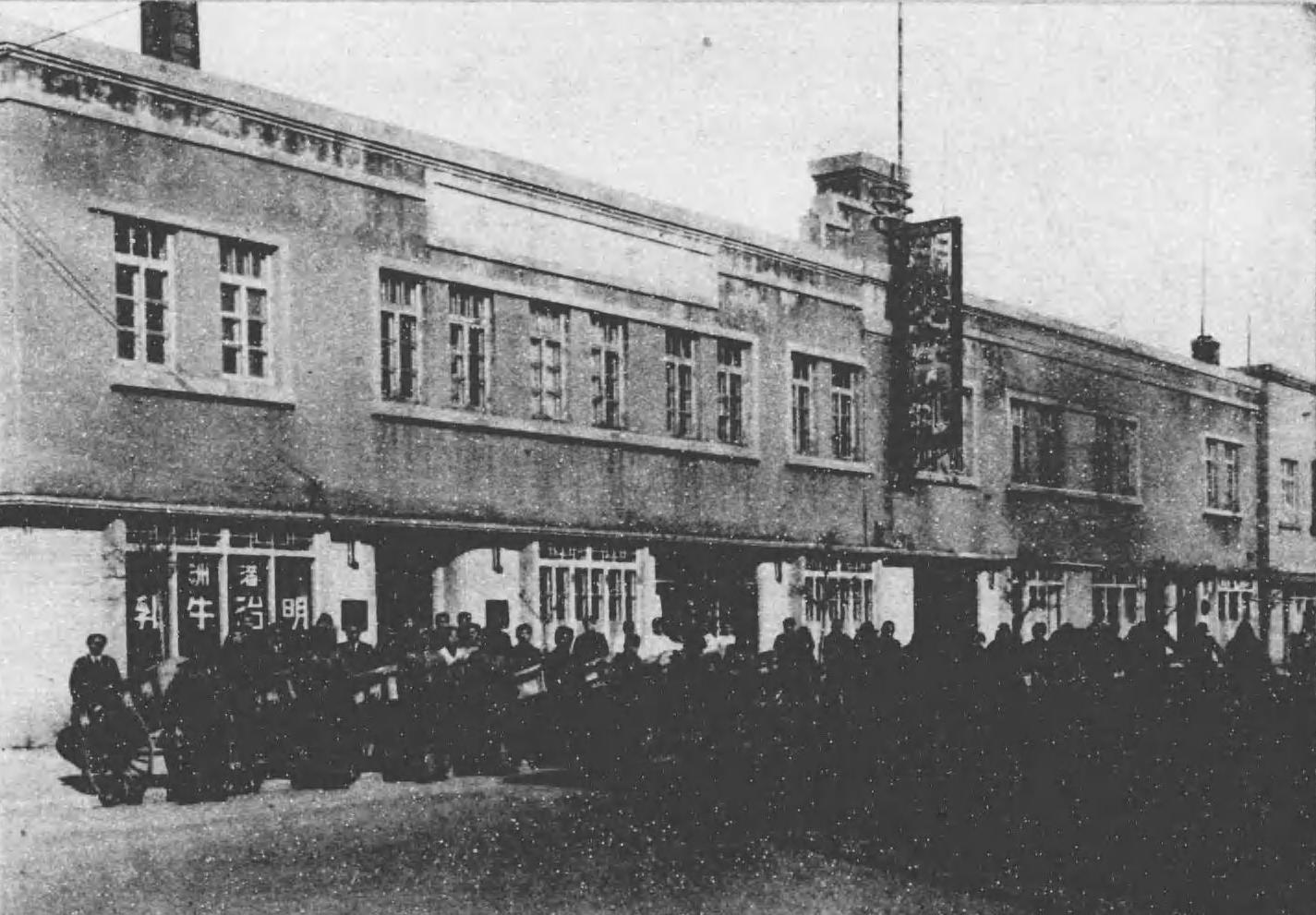 Manshu Meiji GyuuNyuu